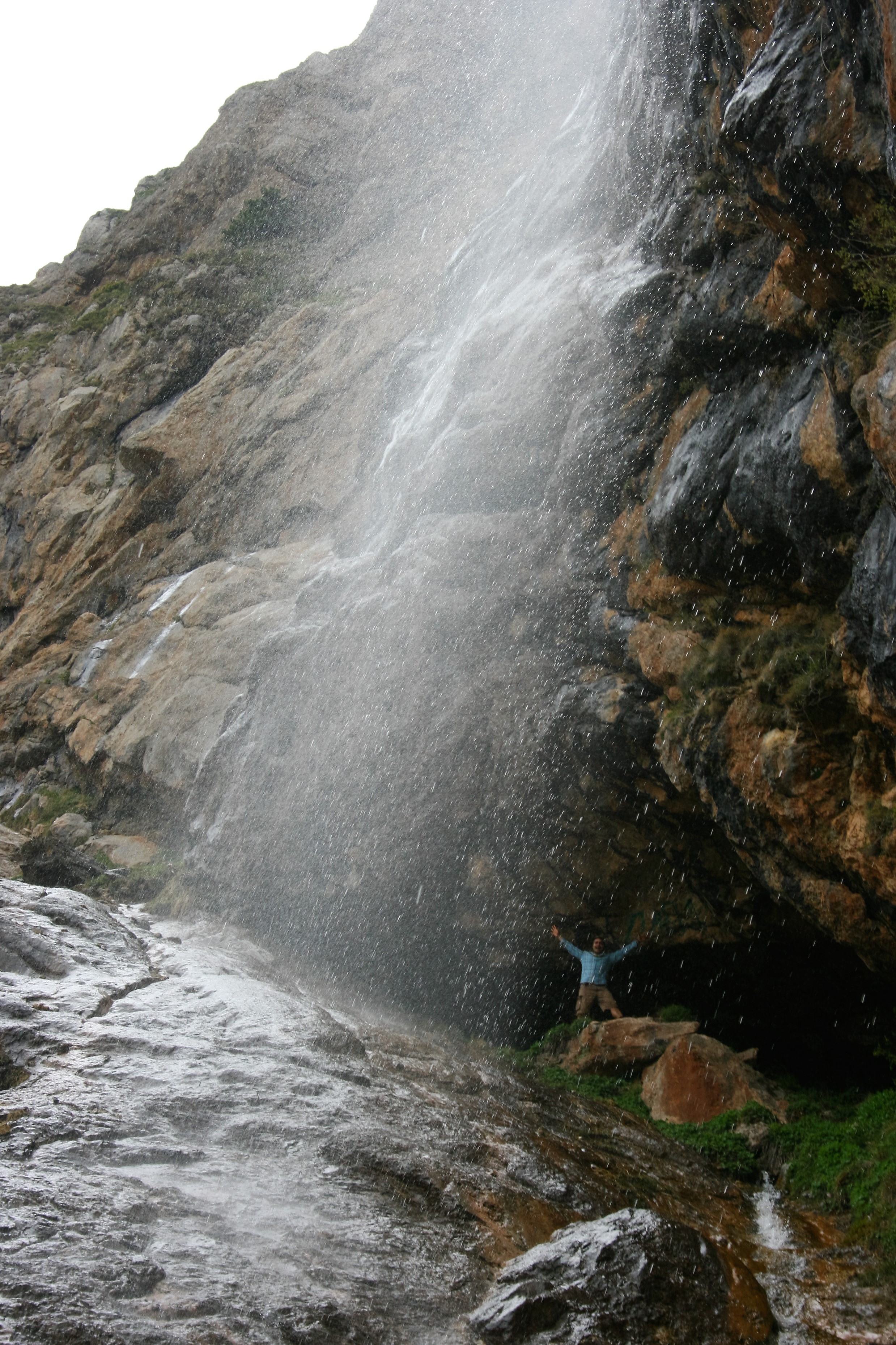 This is a photography of Natura 2000 protected area with ID GR2320002